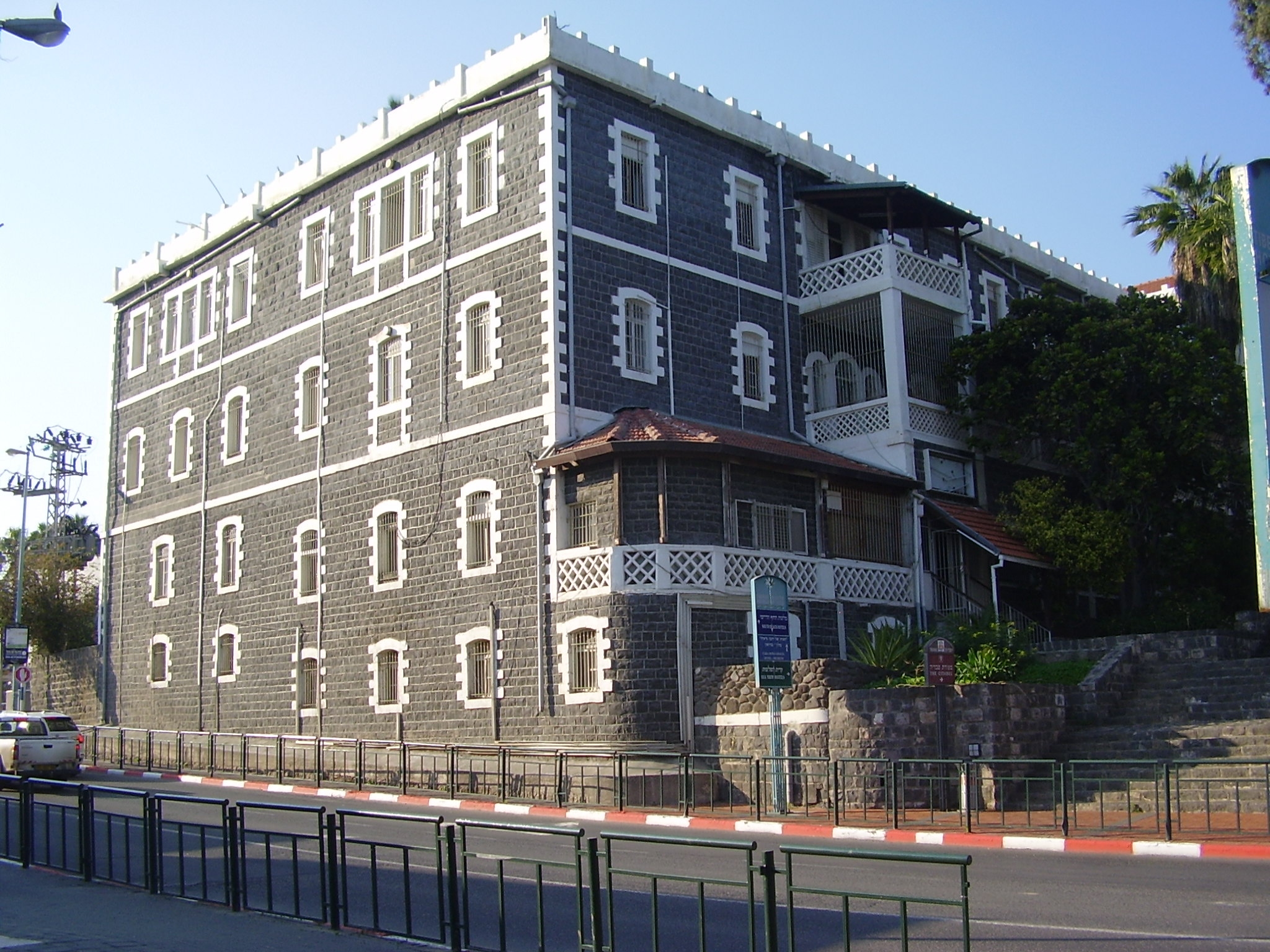 tiberias hotel in tiberias